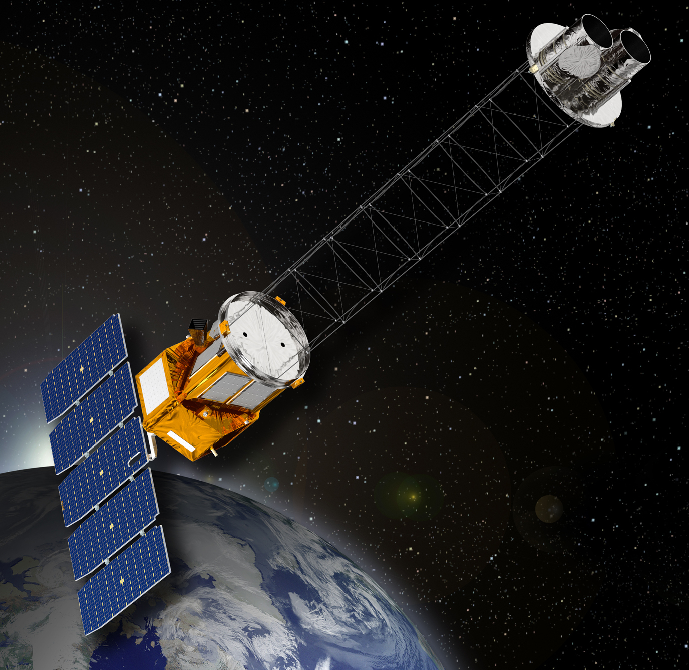 Poster of the GEMS space telescope